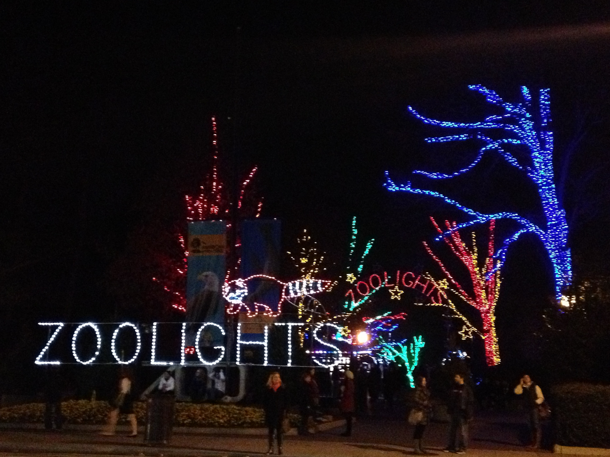 Zoolights event at the National Zoological Park in Washington, D.C.